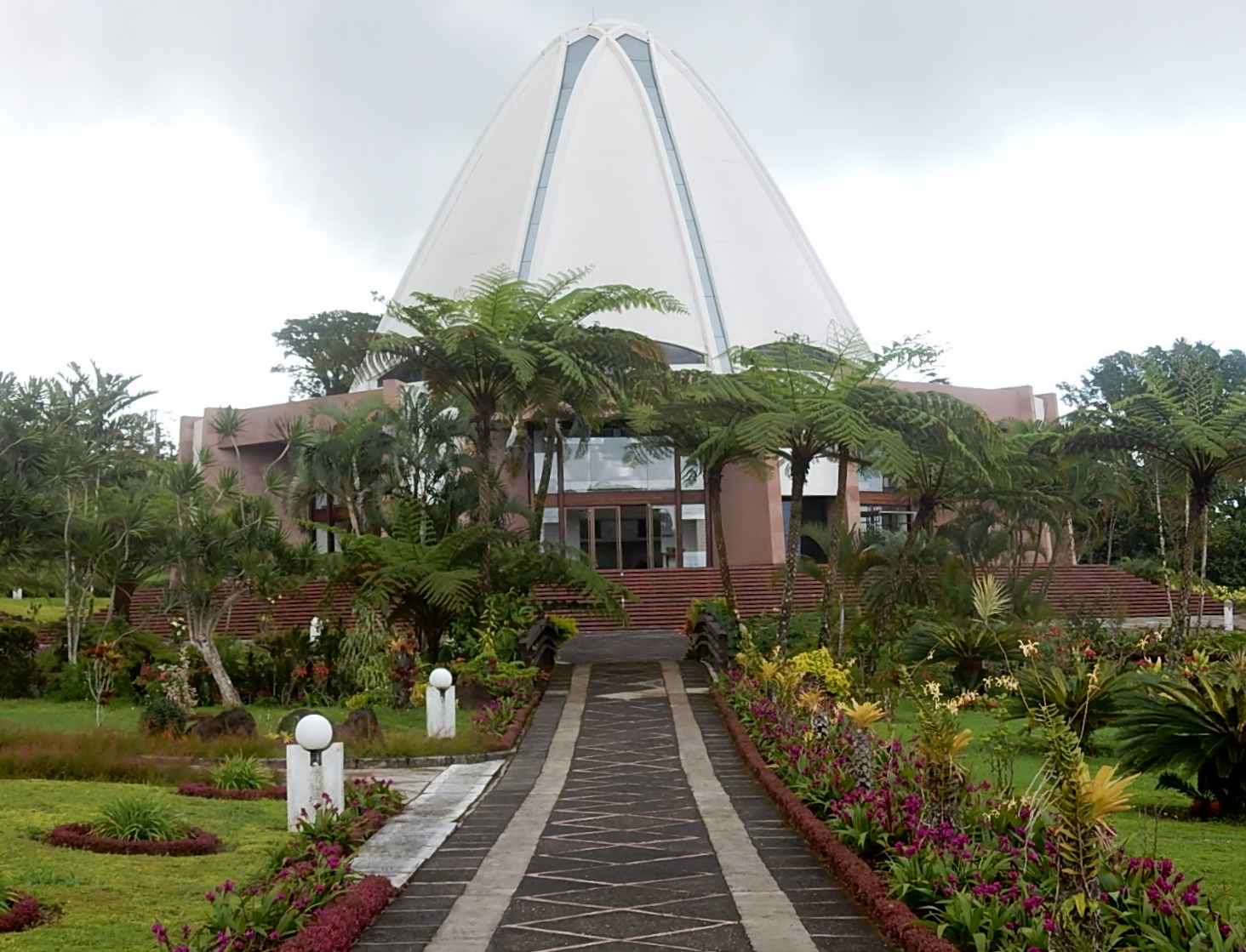 To the Temple of Gods